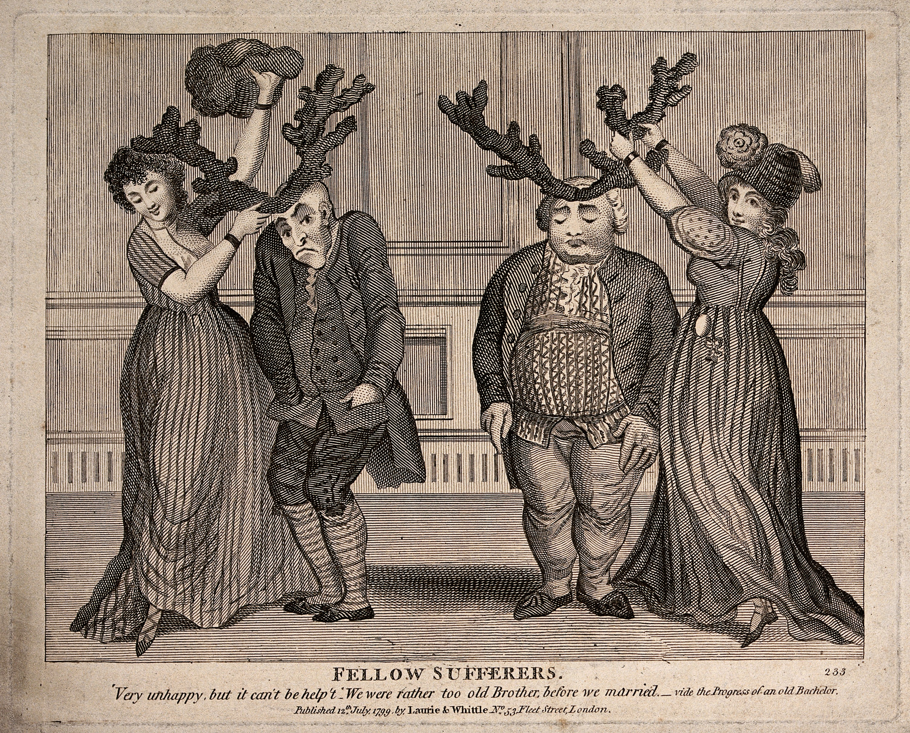 1799 caricature on the alleged consequence of old husbands marrying young wives. Two couples: the young women putting antlers on to the heads of the older men, indicating their cuckoldry. Woman at left holds her husband's wig high in the air. Iconographic Collections Keywords: ic